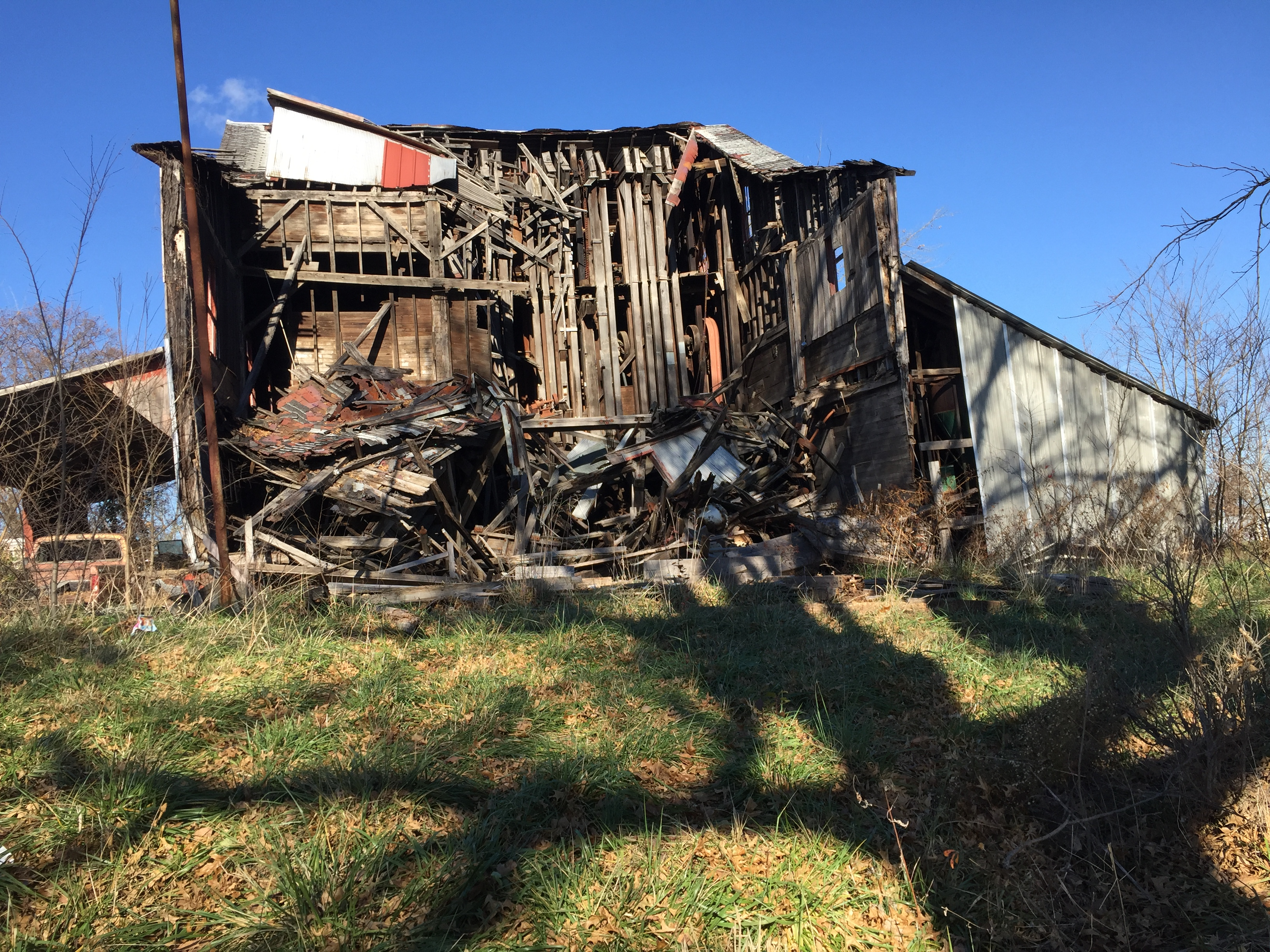 Mill